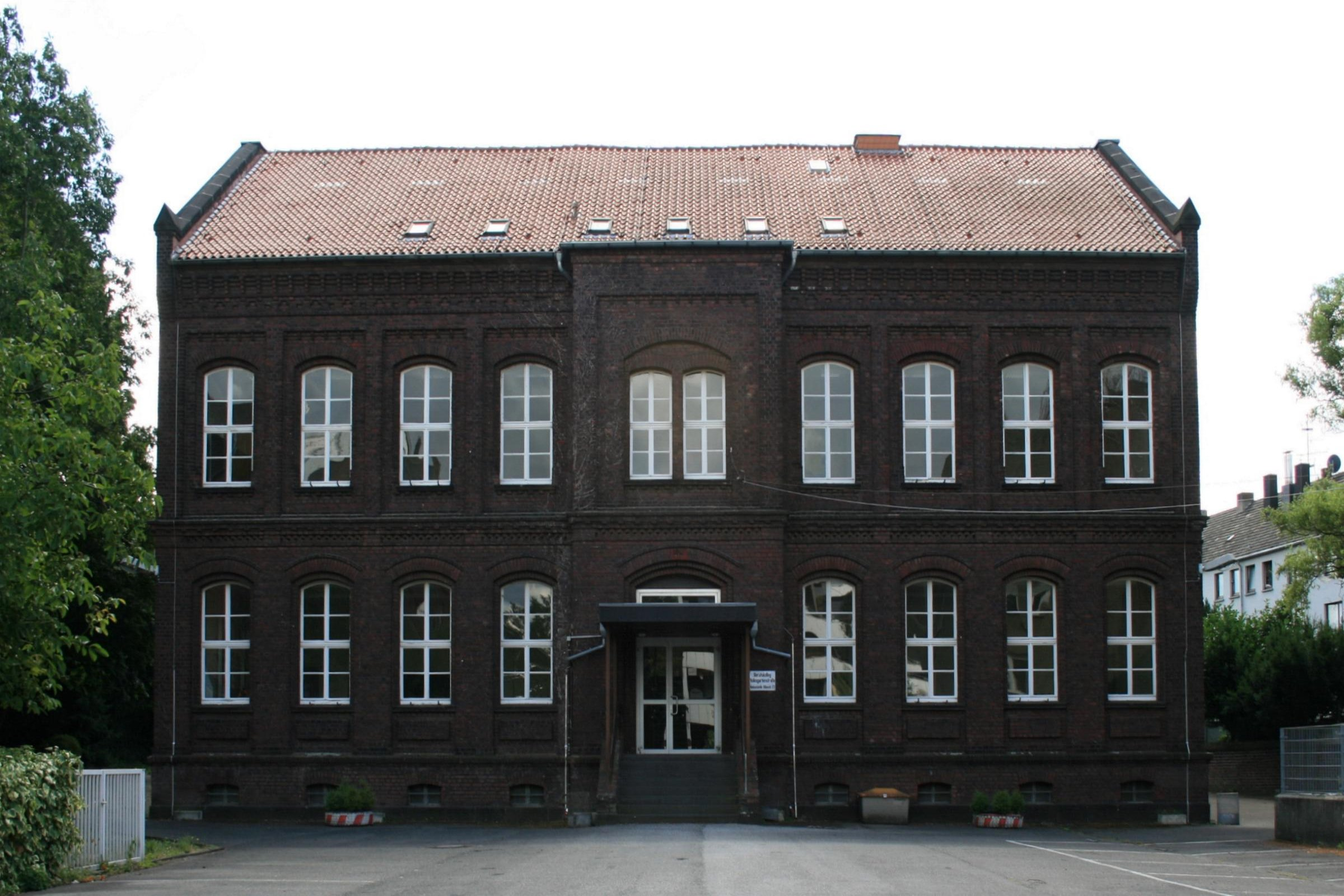 Cultural heritage monument No. A 023 in Mönchengladbach